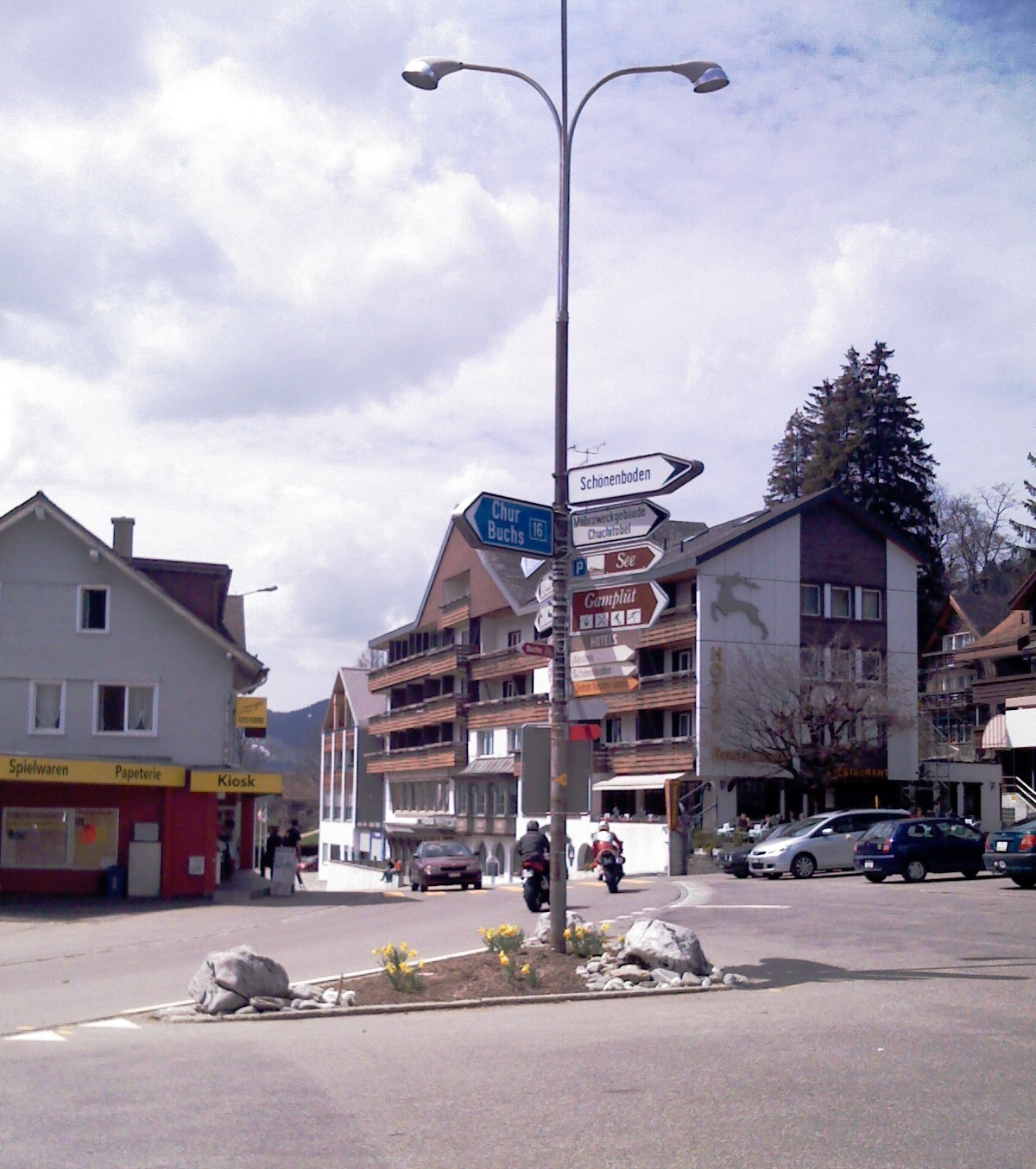 Wildhaus - Summit and village centre